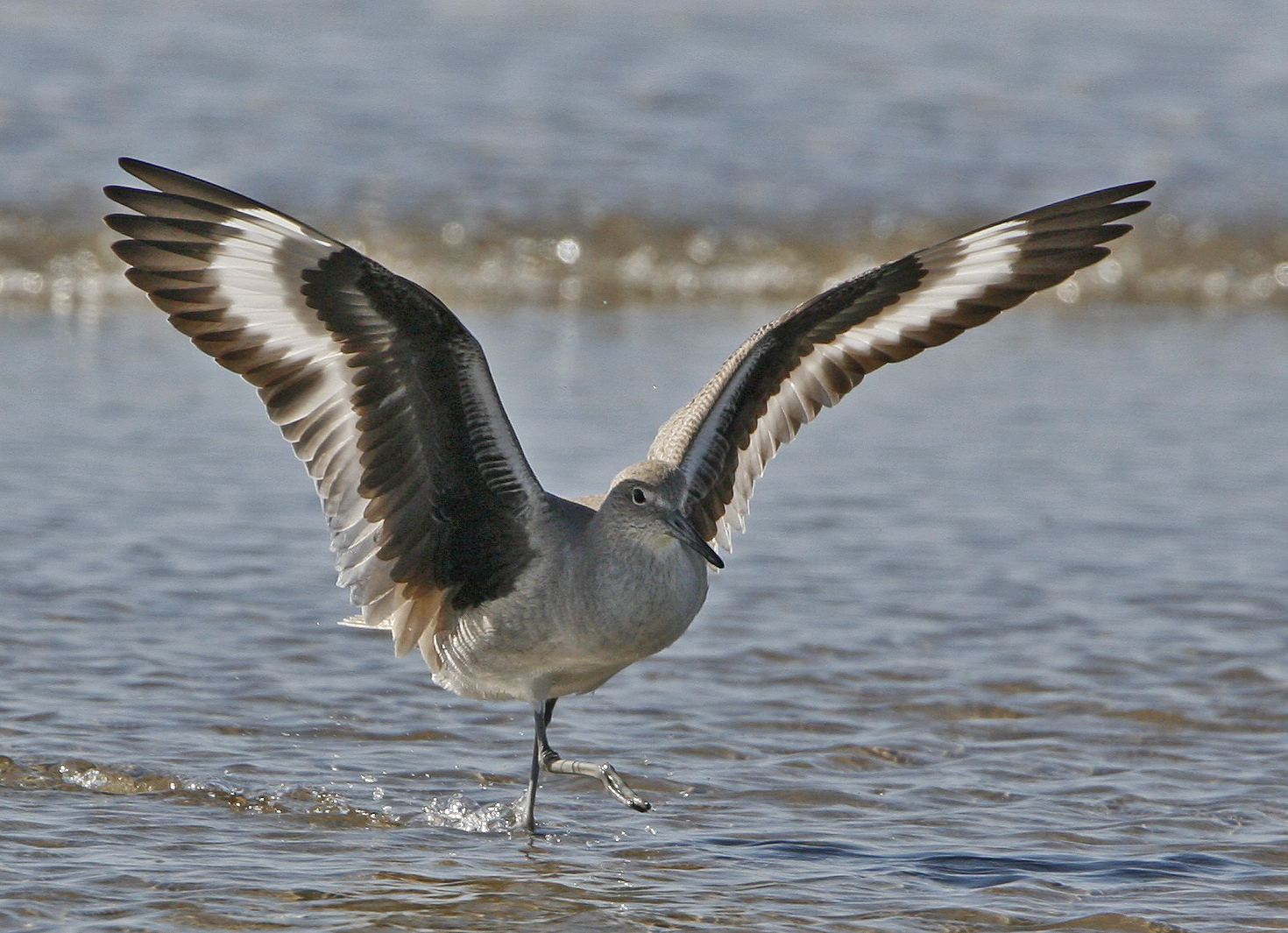 Willet bird (Tringa semipalmata) on Morro Strand State Beach, CA - Taken 1-28-06 on Morro Strand State Beach, Morro Bay, CA, to document Willet Wing Patterns